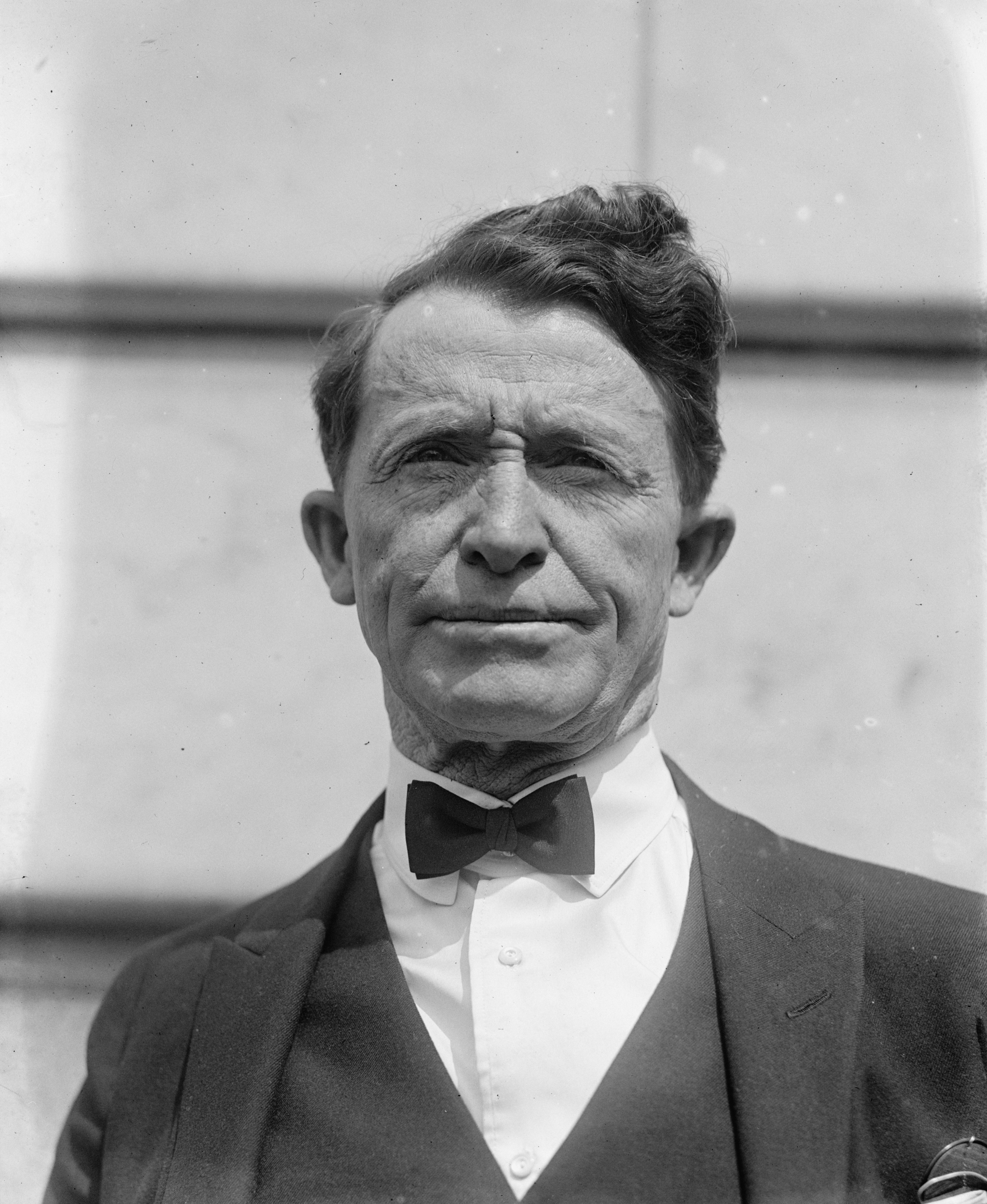 Title: Al Jennings Abstract/medium: National Photo Company Collection (Library of Congress) Physical description: 1 negative